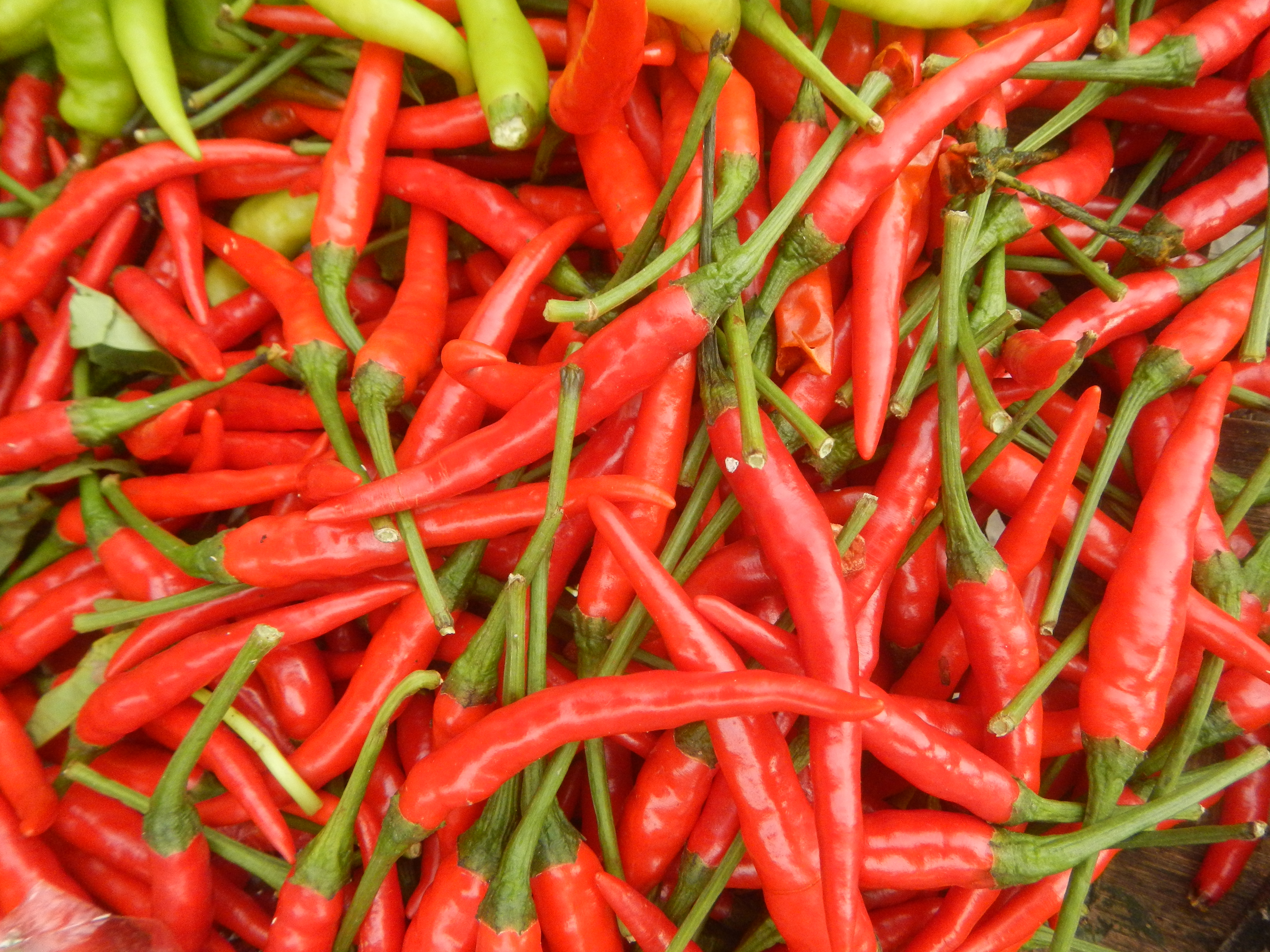 List of Philippine dishes Lakatan Ube Streusel Baliuag, Bulacan Public Market School children in the Philippines Saba banana Avocado Gulaman in Barangay Poblacion 14°57'17"N 120°54'2"E beside Pagala 14°58'14"N 120°53'26"E Baliuag, Bulacan, Bulacan province (Note: Judge Florentino Floro, the owner, to repeat, Donor Florentino Floro of all these photos hereby donate gratuitously, freely and unconditionally all these photos to and for Wikimedia Commons, exclusively, for public use of the public domain, and again without any condition whatsoever).